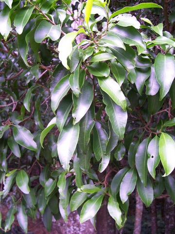 Emmenosperma alphitonioides leaves, Foxground (lowland)